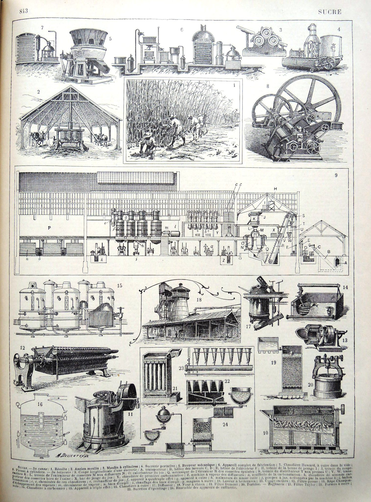 19th Century sugar manufacture